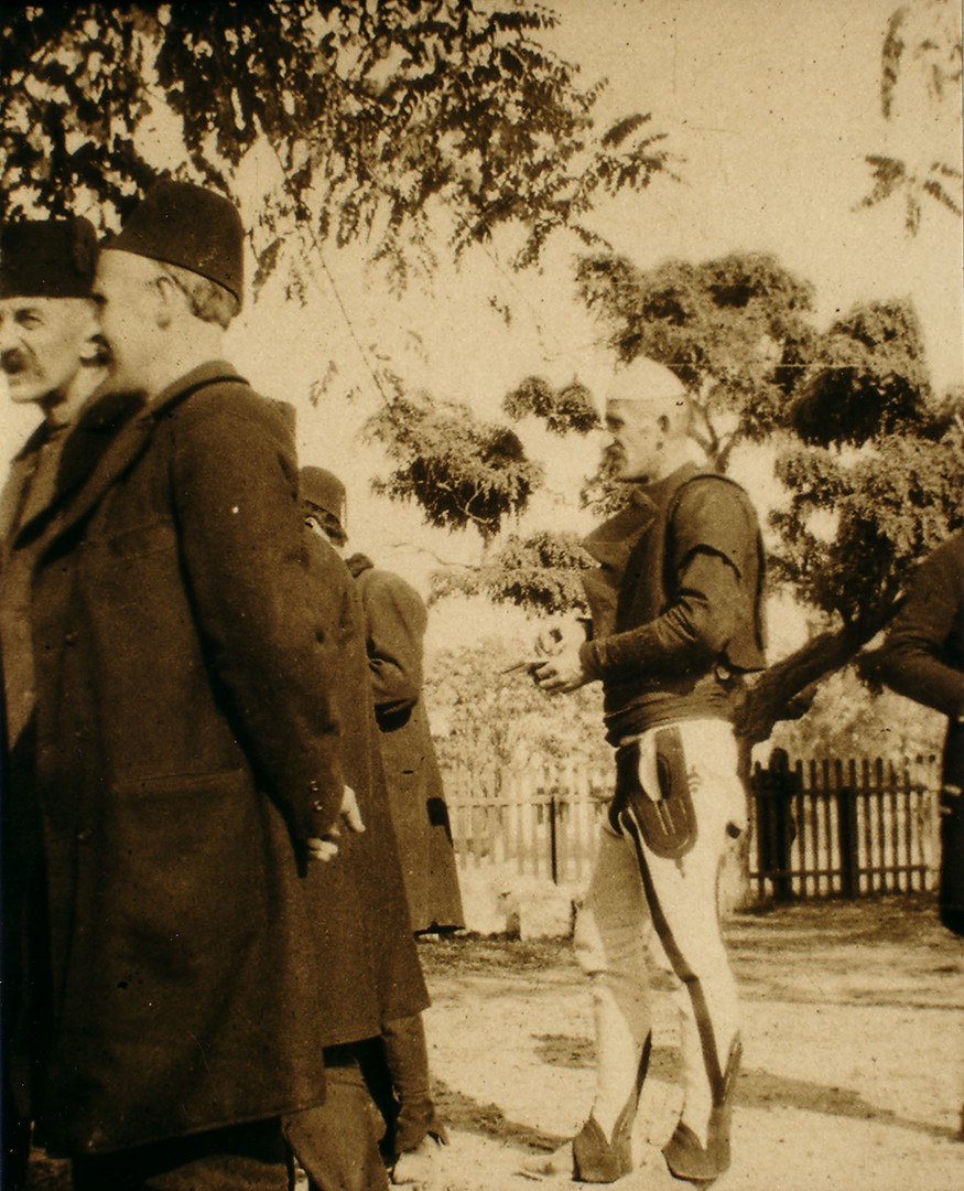 An Albanian in Skopje. 1903